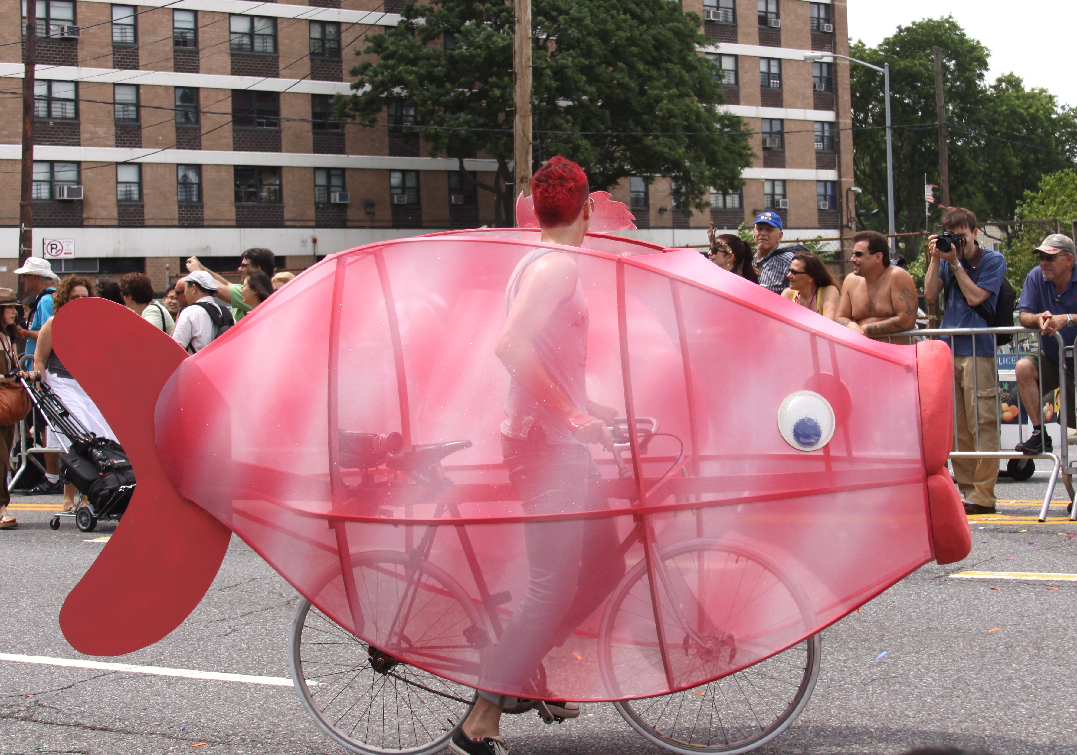 Coney Island Mermaid Parade. Fish bike.